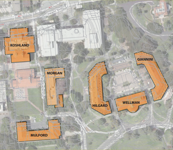 Map of the College of Natural Resource's buildings at the University of California, Berkeley